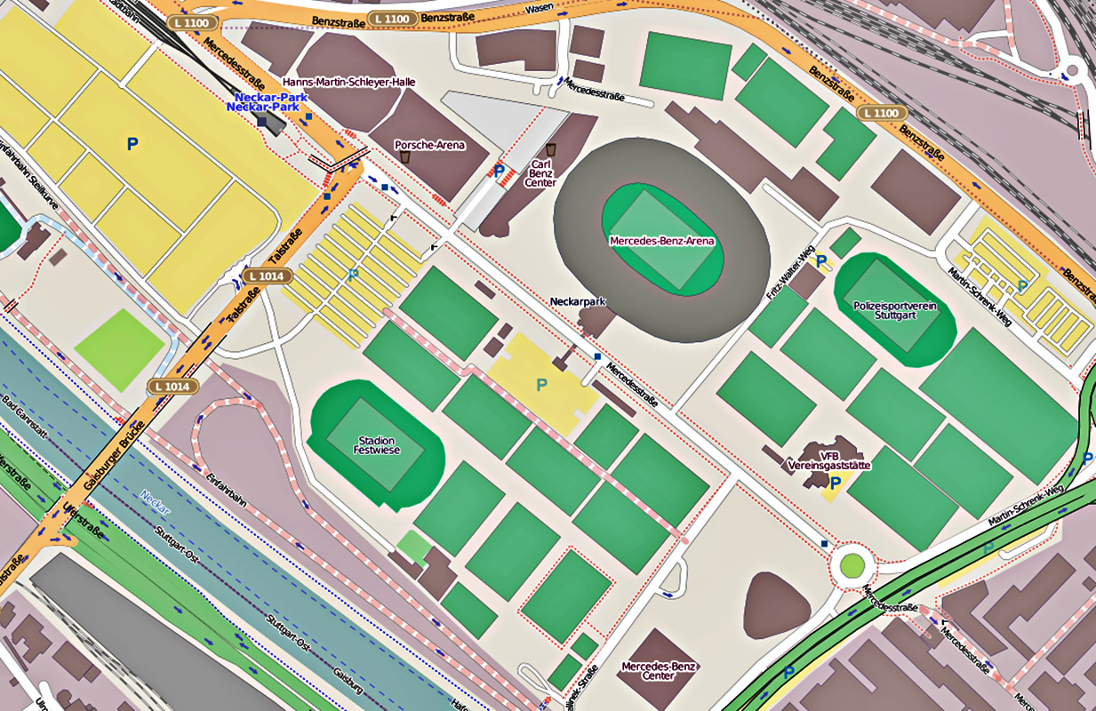 This map may be incomplete, and may contain errors. Don't rely solely on it for navigation.